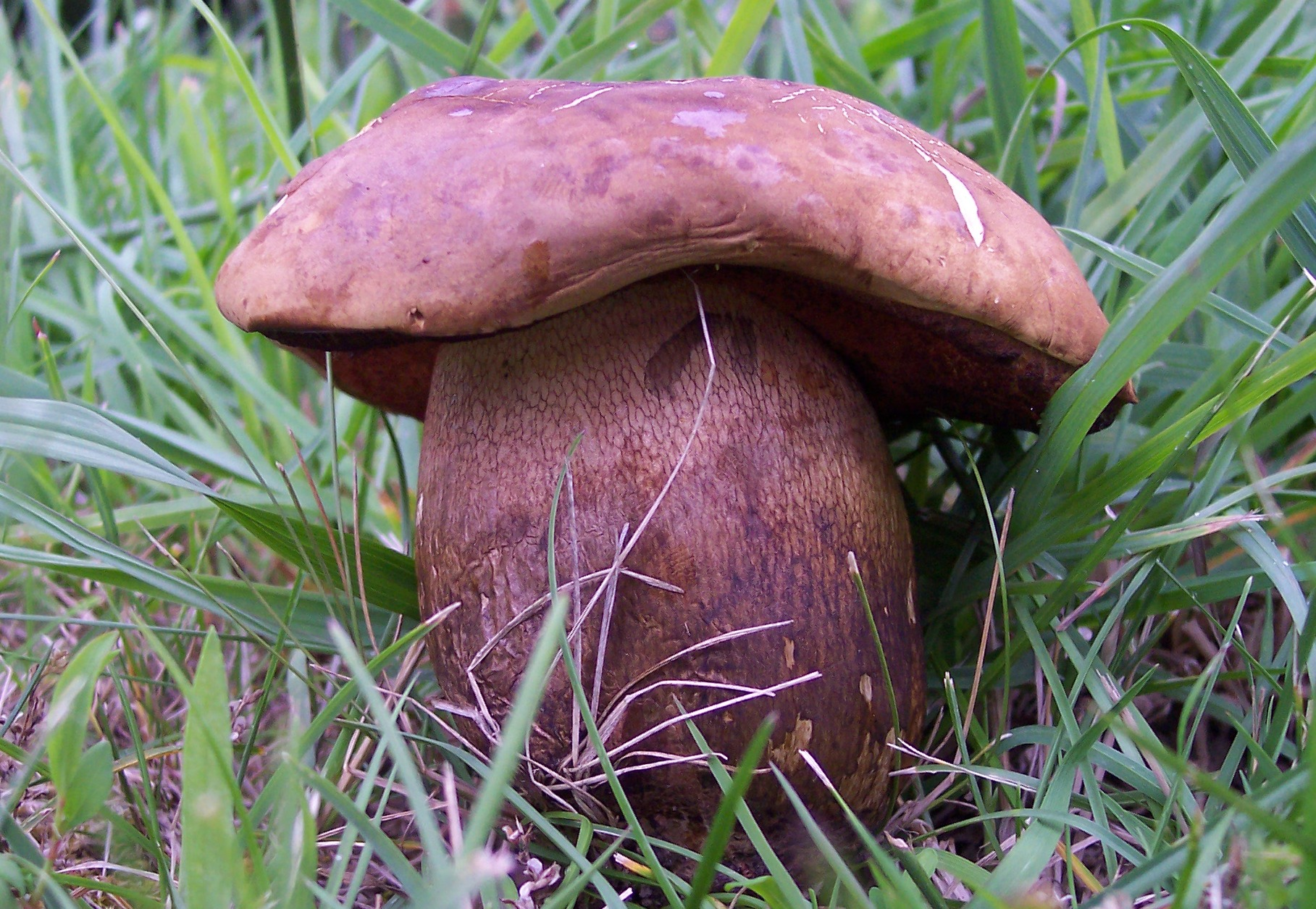 lurid bolete